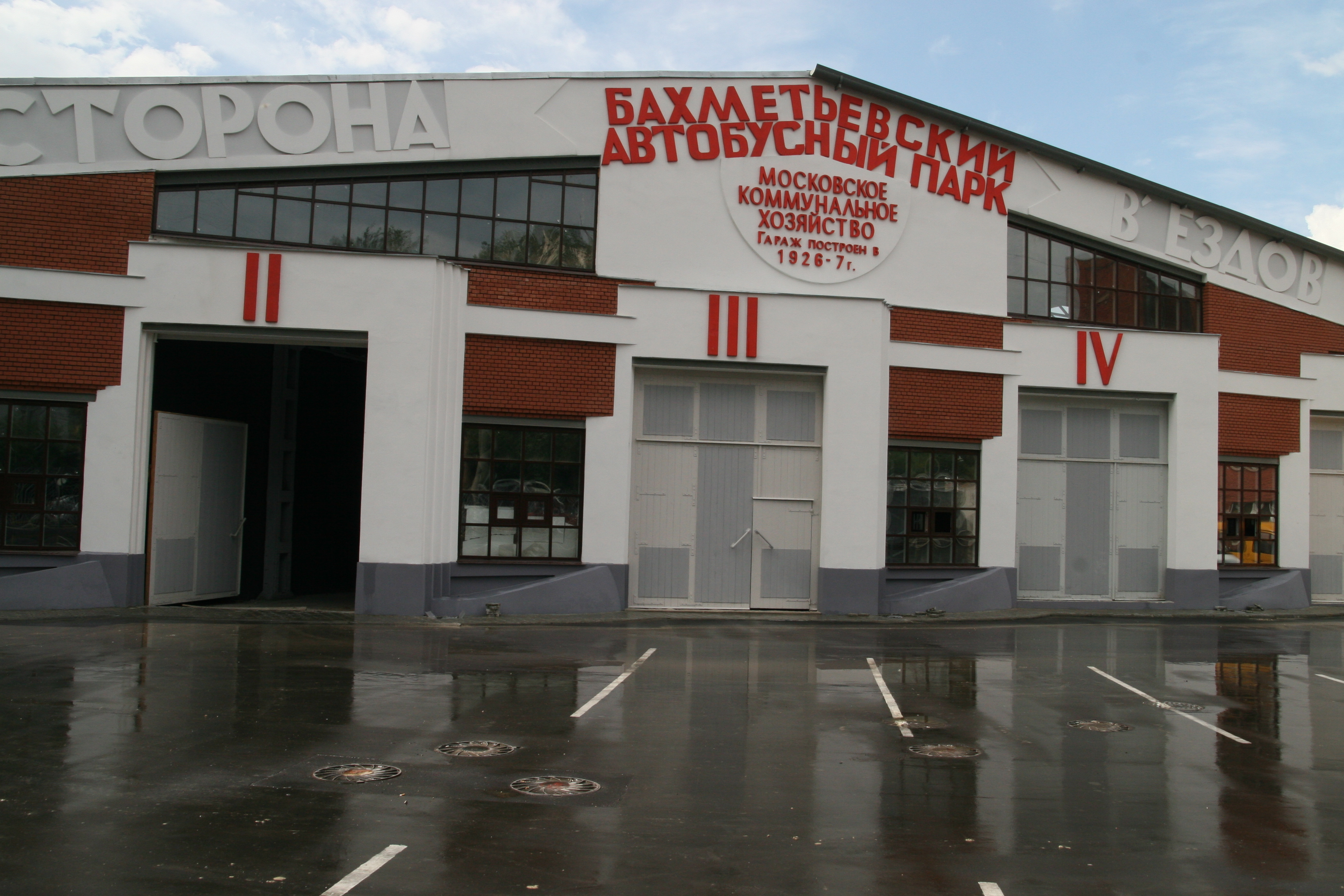 Bakhmetevsky Bus Garage, architect Konstantin Melnikov and the engineer Vladimir Shukhov